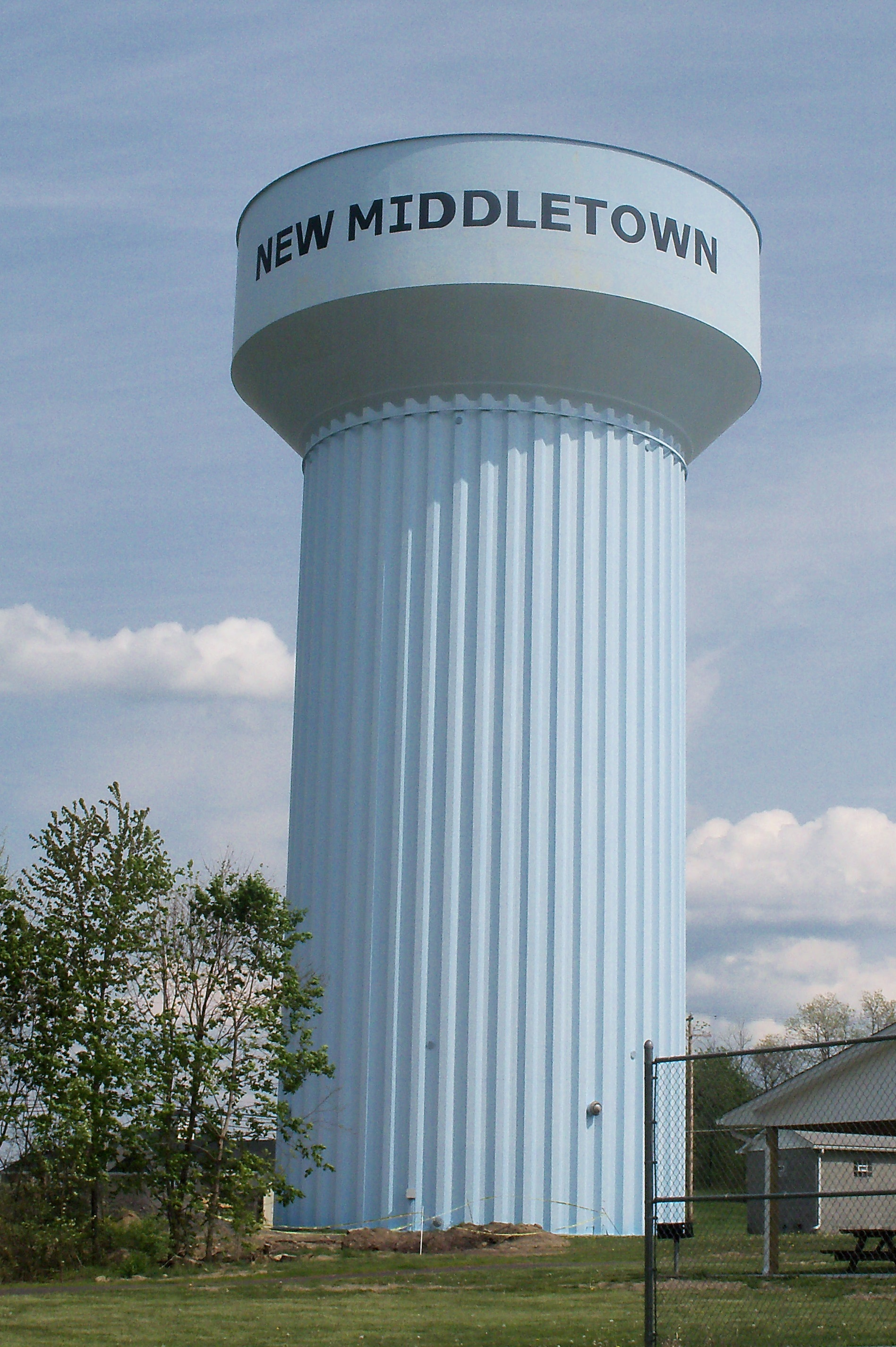 New Middletown, Ohio water tower